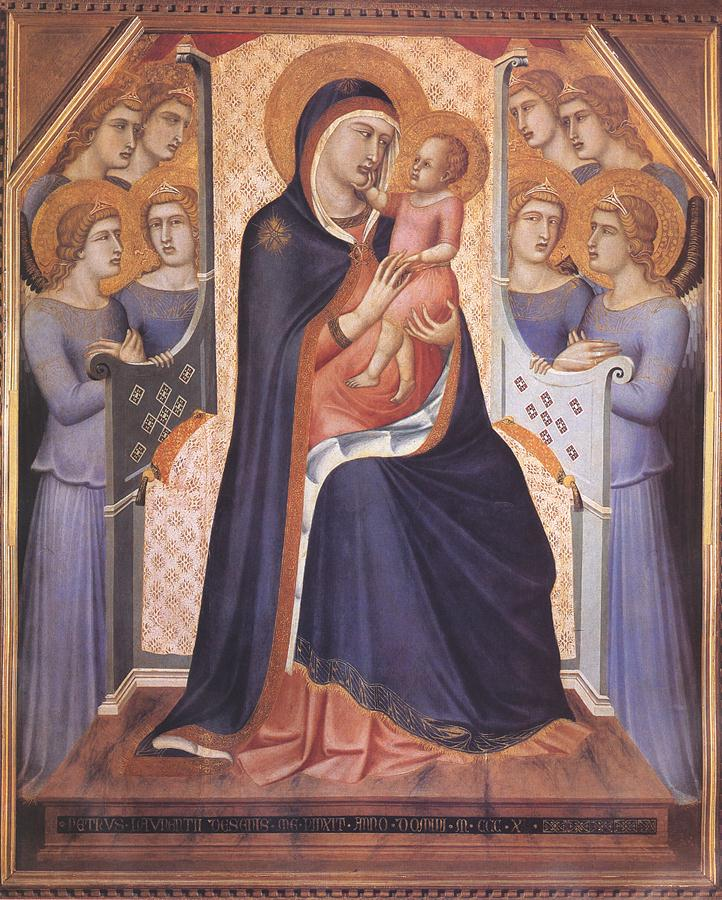 LORENZETTI, Pietro Madonna Enthroned with Angels Tempera on wood, 145 x 122 cm Galleria degli Uffizi, Florence